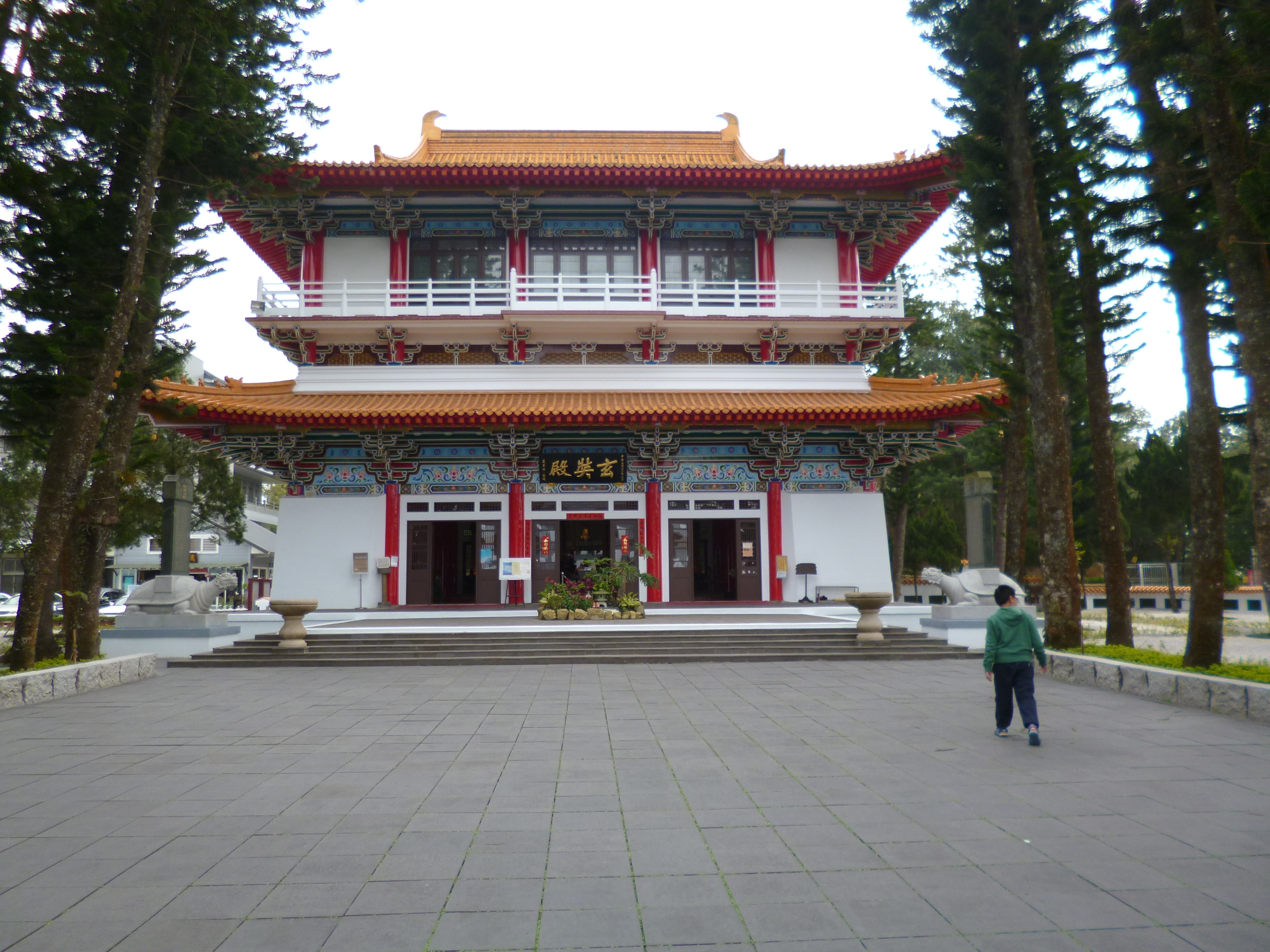 Xuanzang Hall, Xuanzang Temple beside Sun Moon Lake in Taiwan